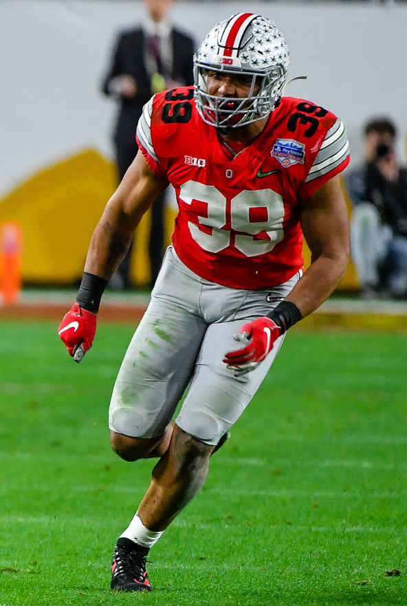 Harrison vs. Clemson